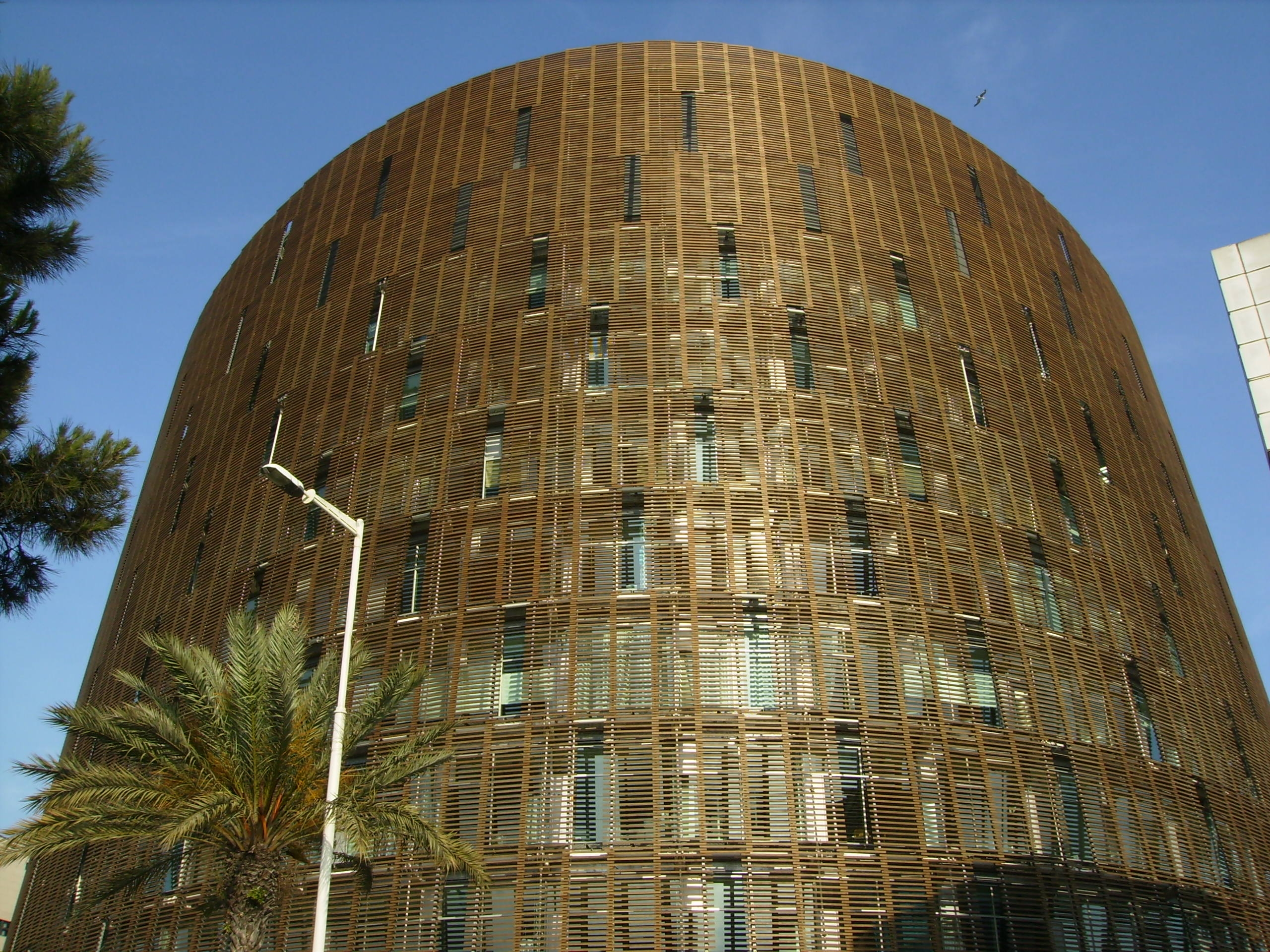 Research Biomedic Parc in Barcelona, Catalonia